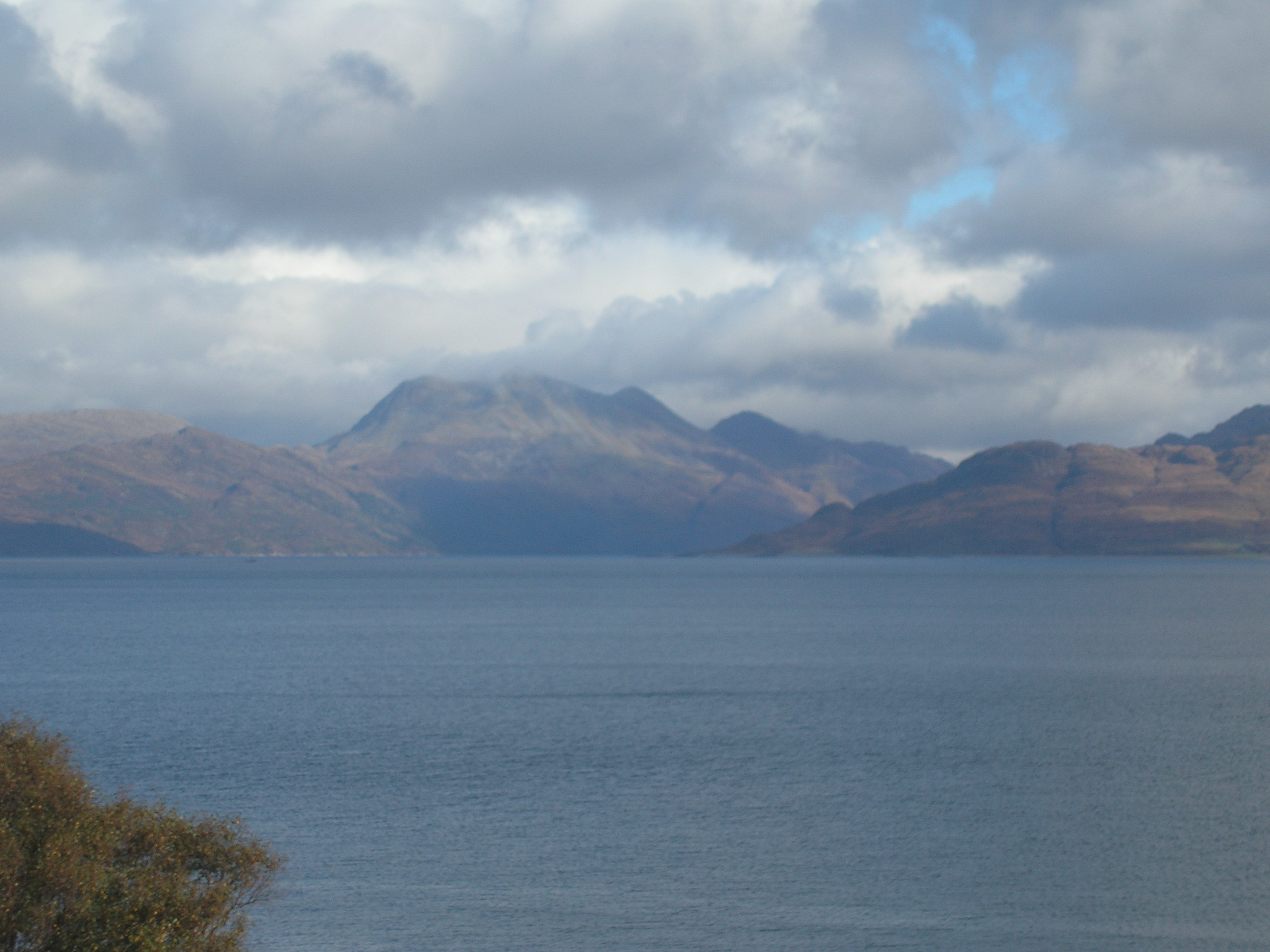 Beinn Sgritheall, Scotland, viewed from the Sleat peninsula, Skye